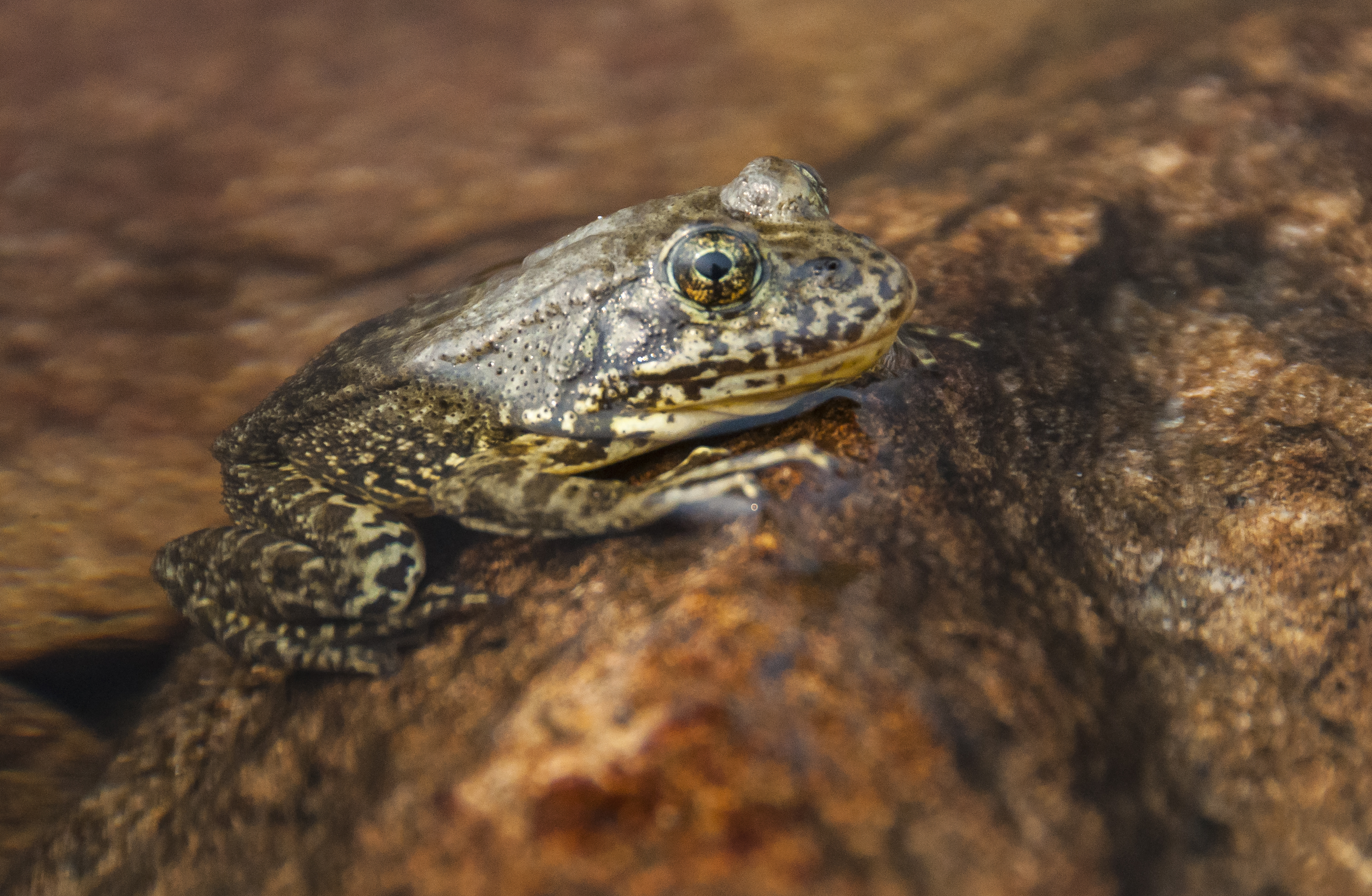 Mountain yellow-legged frog. The Northern Distinct Population Segment of the mountain yellow-legged frog was listed as endangered in 2014. More than 90% of the population has disappeared.